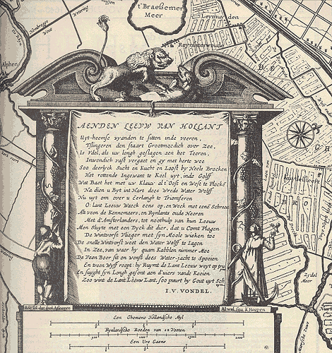 Part of old map of Haarlemmermeer, dating from 1641, showing the boundaries of the Harlem lake, which was a growing threat to both Haarlem and Amsterdam. The poet Vondel wrote a poem about the fight of the "Land Lion" against the "Water Wolf". The frame shows a lion vanquishing the wolf and on the left a farmer asks how the fight will end and on the right "Hope" replies "for the best, I hope".